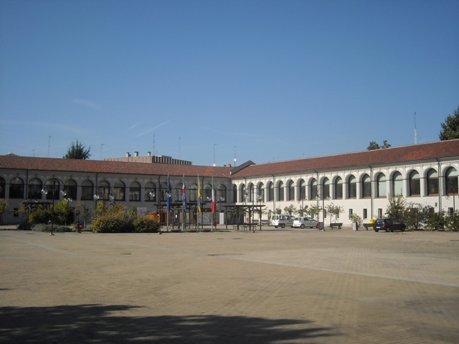 Cascina Giaione in Turin, Italy